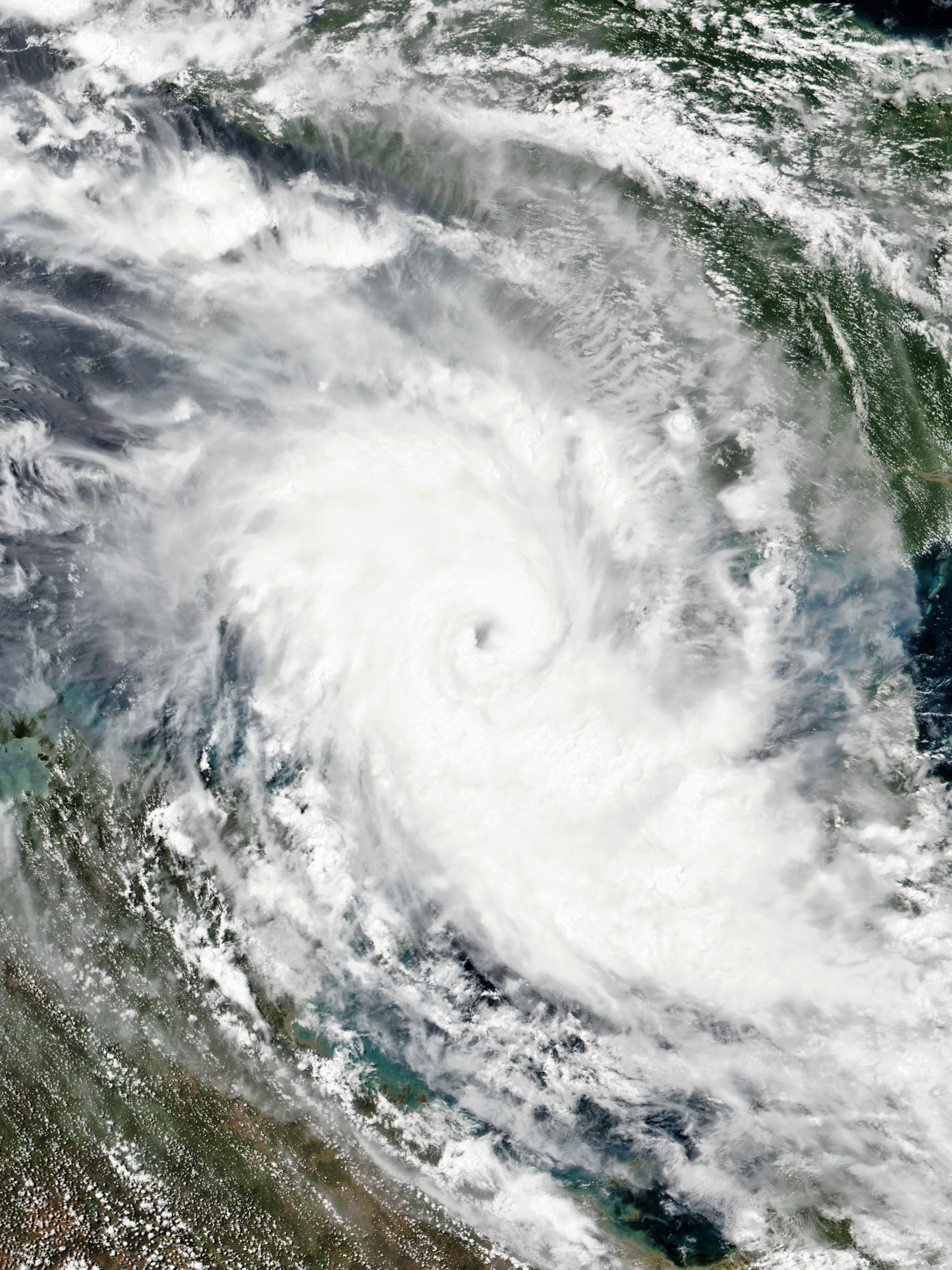 Cyclone Nora rapidly intensifying over the eastern Arafura Sea on 23 March 2018. The system is currently at Category 2 on the Australian scale, with sustained winds of 100 km/h (65 mph).